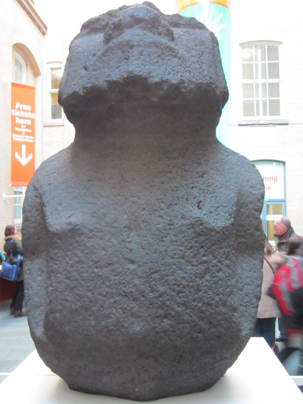 Moai Hava, a statue from Easter Island c. 1300-1500 AD. On display at the World Museum Liverpool, England.